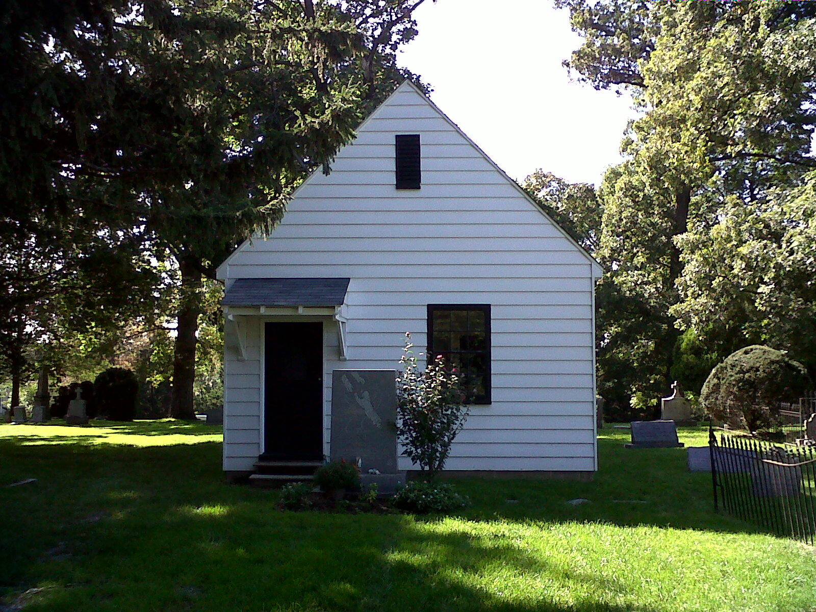 A reconstructed version from the early to mid 20th century of St. John the Evangelist Catholic Church in Silver Spring, Maryland. The original church building was built by John Carroll who would go on to be the first Catholic bishop in the United States.